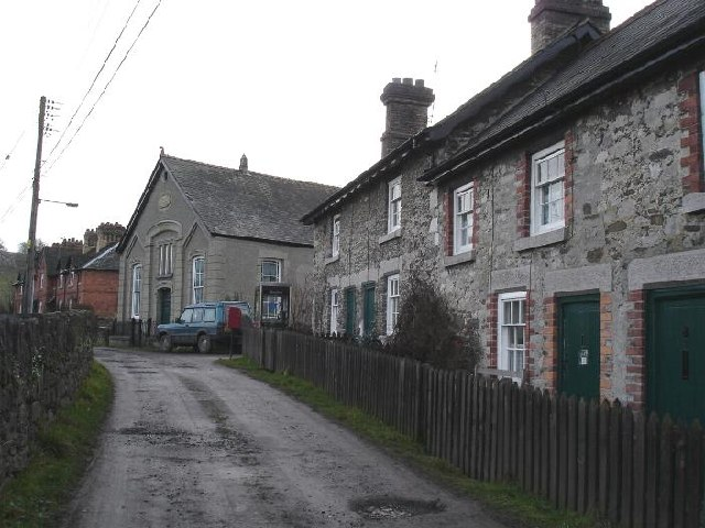 Llanelidan. The village of Llanelidan, part of the Nantclwyd Estate